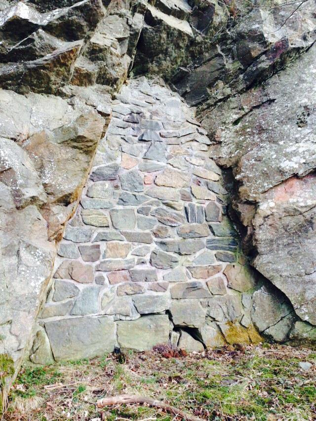 The unused tomb of Ture Malmgren (1851-1922). Uddevalla, Sweden.